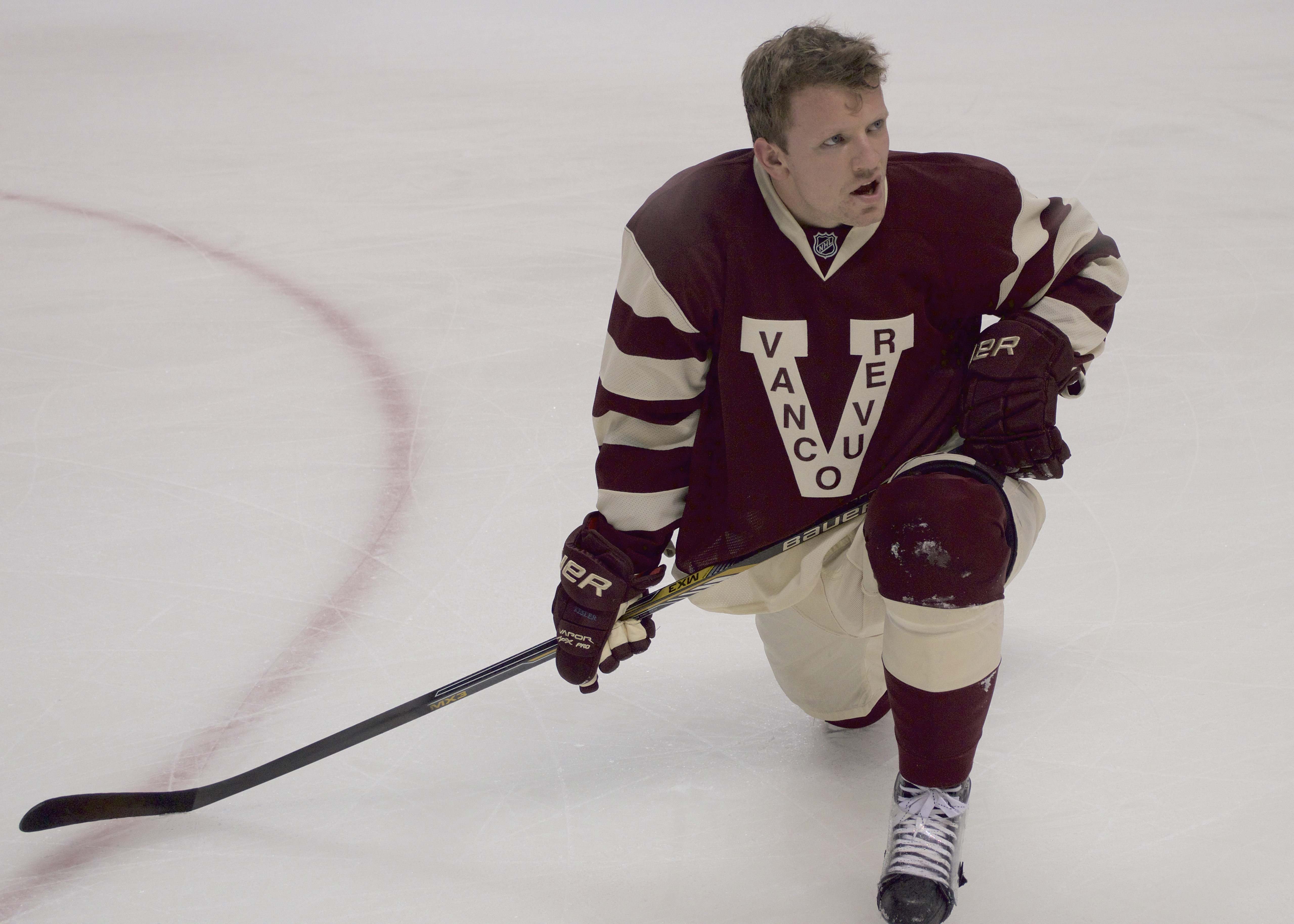 Vancouver Canucks winger Derek Dorsett during a pre-game warm up on March 26, 2015 at Rogers Arena. The team wore Vancouver Millionaires jerseys commemorating the Millionaires' 1915 Stanley Cup victory.